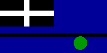 The flag of Tangier Island, Virginia, in use since at least March 1996.